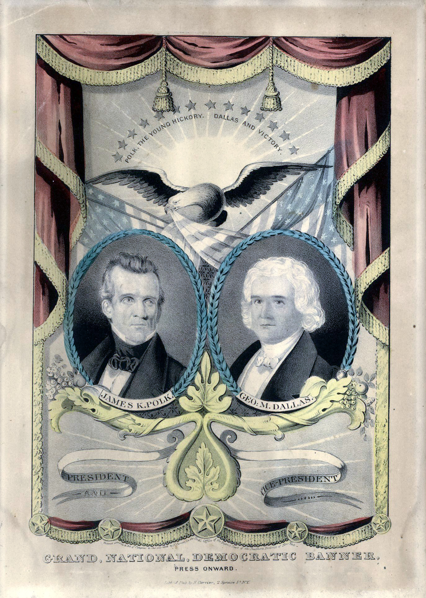 One of several campaign banners Nathaniel Currier is known to have produced for the Democrats in 1844. It features two laurel-wreathed, oval portraits of Democratic presidential and vice-presidential candidates James K. Polk (left) and George M. Dallas (right). The print imitates the hanging drapes and tassels of cloth banners, aspiring to a "trompe l'oeil" effect. In the center, above the portraits, appear an eagle and several American flags. Below the portraits are acanthus cornucopias similar to those in the "Grand National Whig Prize Banner Badge" (no. 1844-9). The campaign slogan "Polk, The Young Hickory. Dallas And Victory" appears in a rising sun above the eagle. Nathaniel Currier also produced a nearly identical banner for opposition candidates Clay and Frelinghuysen (no. 1844-12). Judging from its copyright date the Whig banner appeared in April, while the Democratic banner was not deposited for copyright until June 26, after that party's late-May national convention.